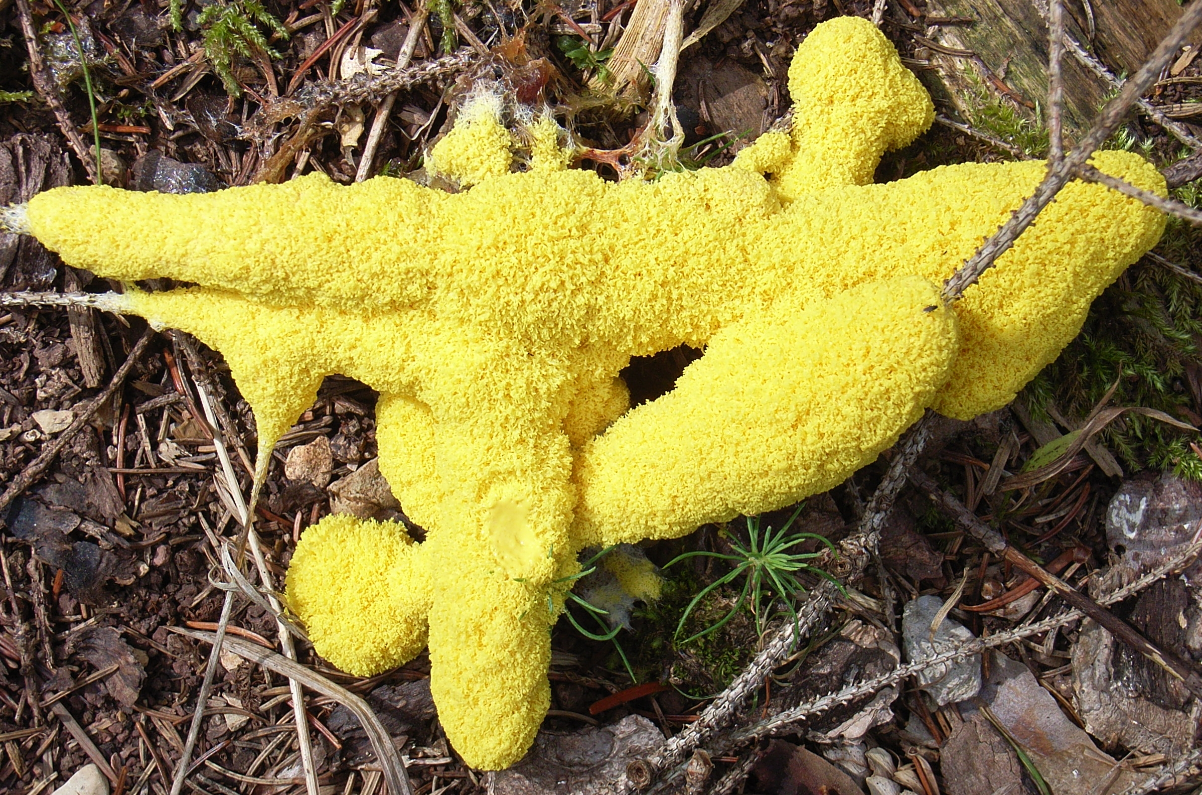 Fuligo septica from Southern Germany, Kreis Tuttlingen